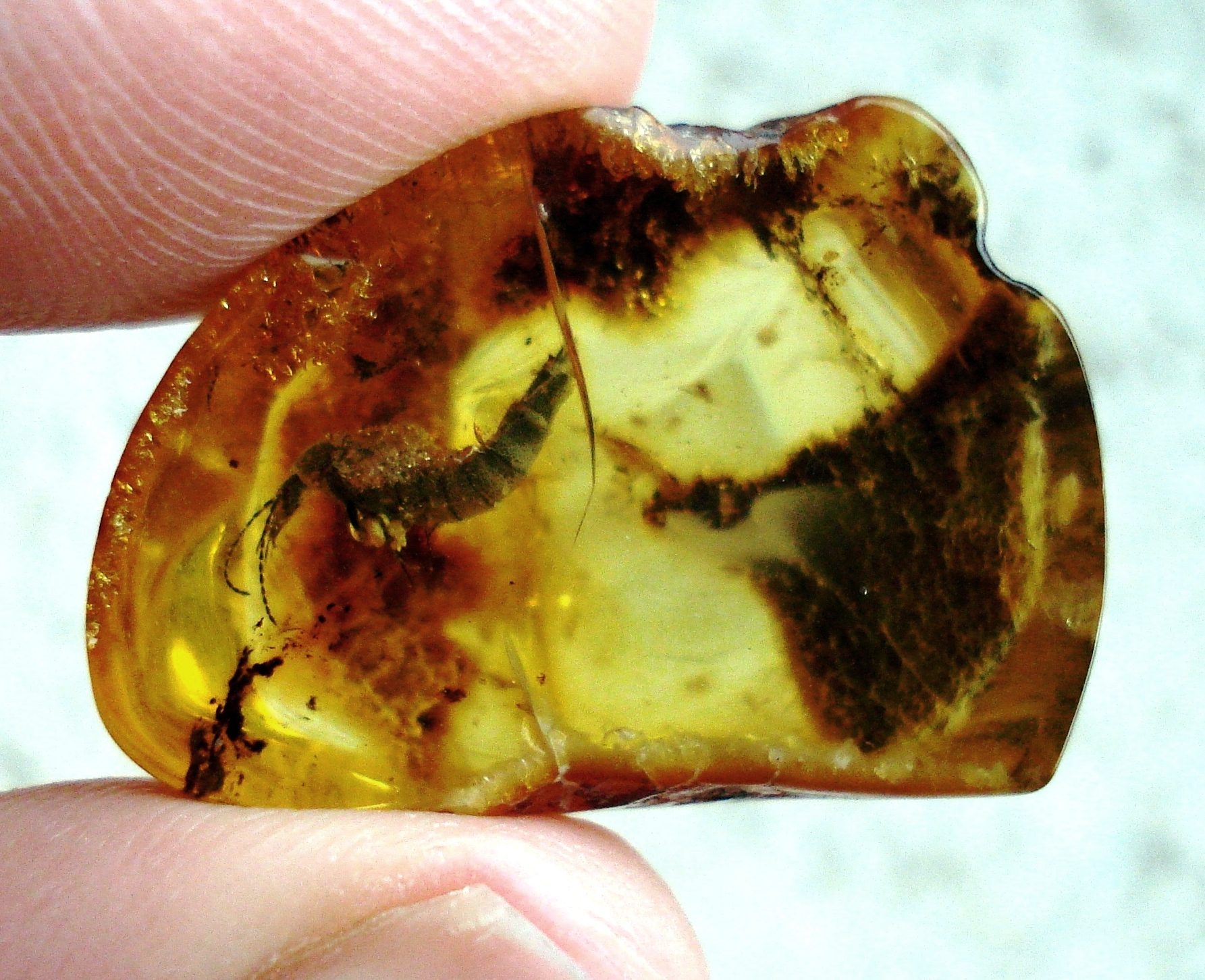 Baltic amber inclusions - 50 million years old - Coleoptera, Staphylinidae, Gymnusa? Length 10 mm. There is more photos of this beetle in the category "Images from Baltic-amber-beetle"